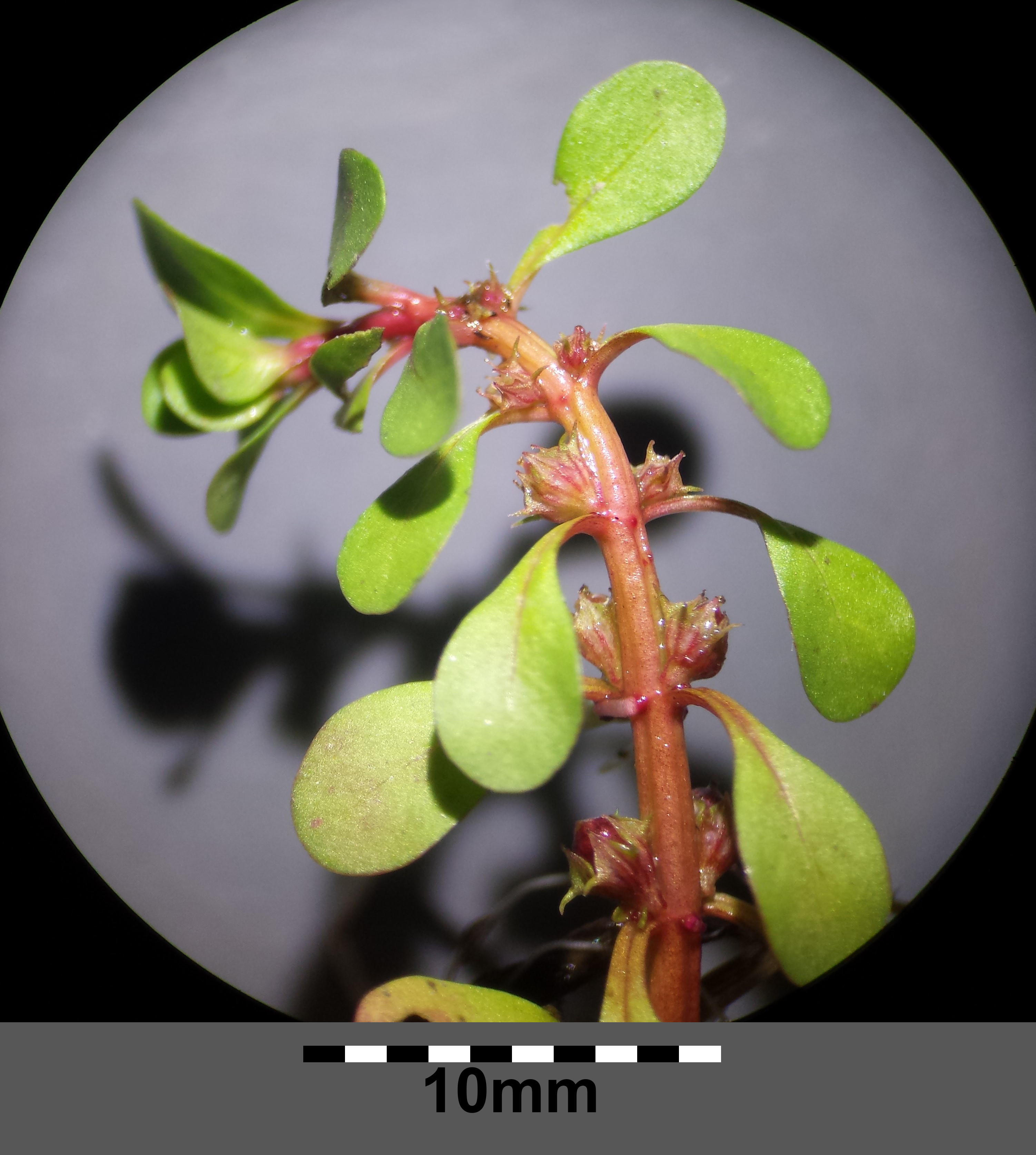 Infructescence Taxonym: Peplis portula ss Fischer et al. EfÖLS 2008 ISBN 978-3-85474-187-9 Location: Rudmannser Teich, district Zwettl, Lower Austria - ca. 580 m a.s.l. Habitat: ground of a lake